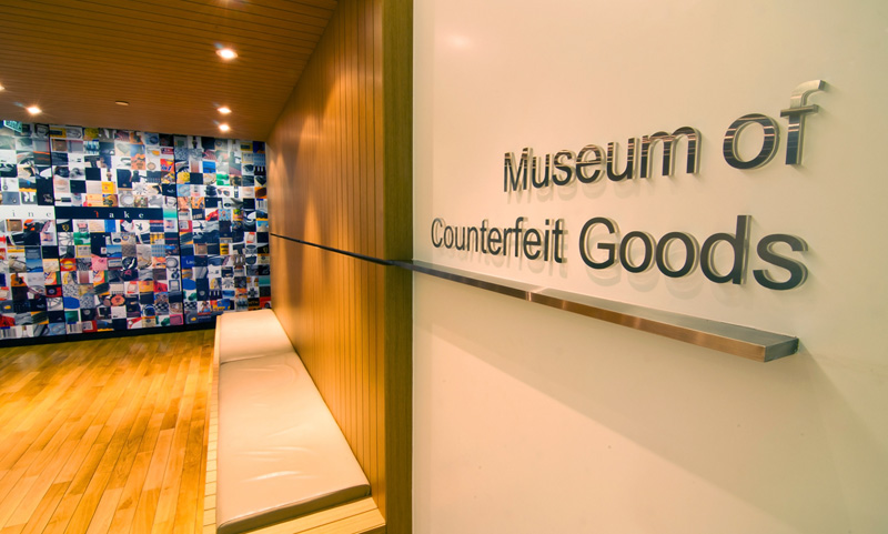 Tilleke & Gibbins Museum of Counterfeit Goods' Entrance